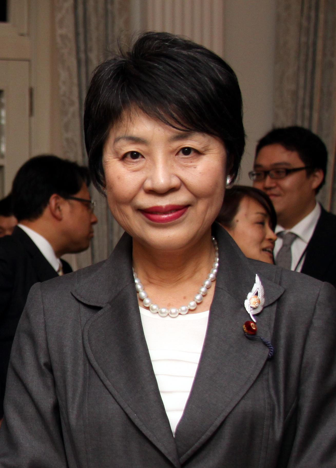 Yōko Kamikawa, Minister of Justice, and Taku Ōtsuka, Parliamentary Secretary for Justice, met Tim Hitchens, Ambassador to Japan, at the Embassy of the United Kingdom in Tokyo on April 1, 2015.